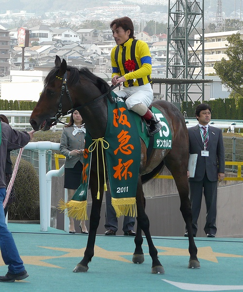 San-Carlo20110227